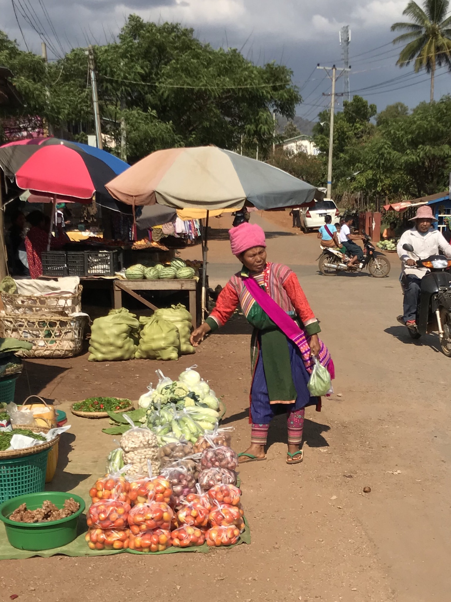 Lisu woman buying vegetables in HsiHseng market.